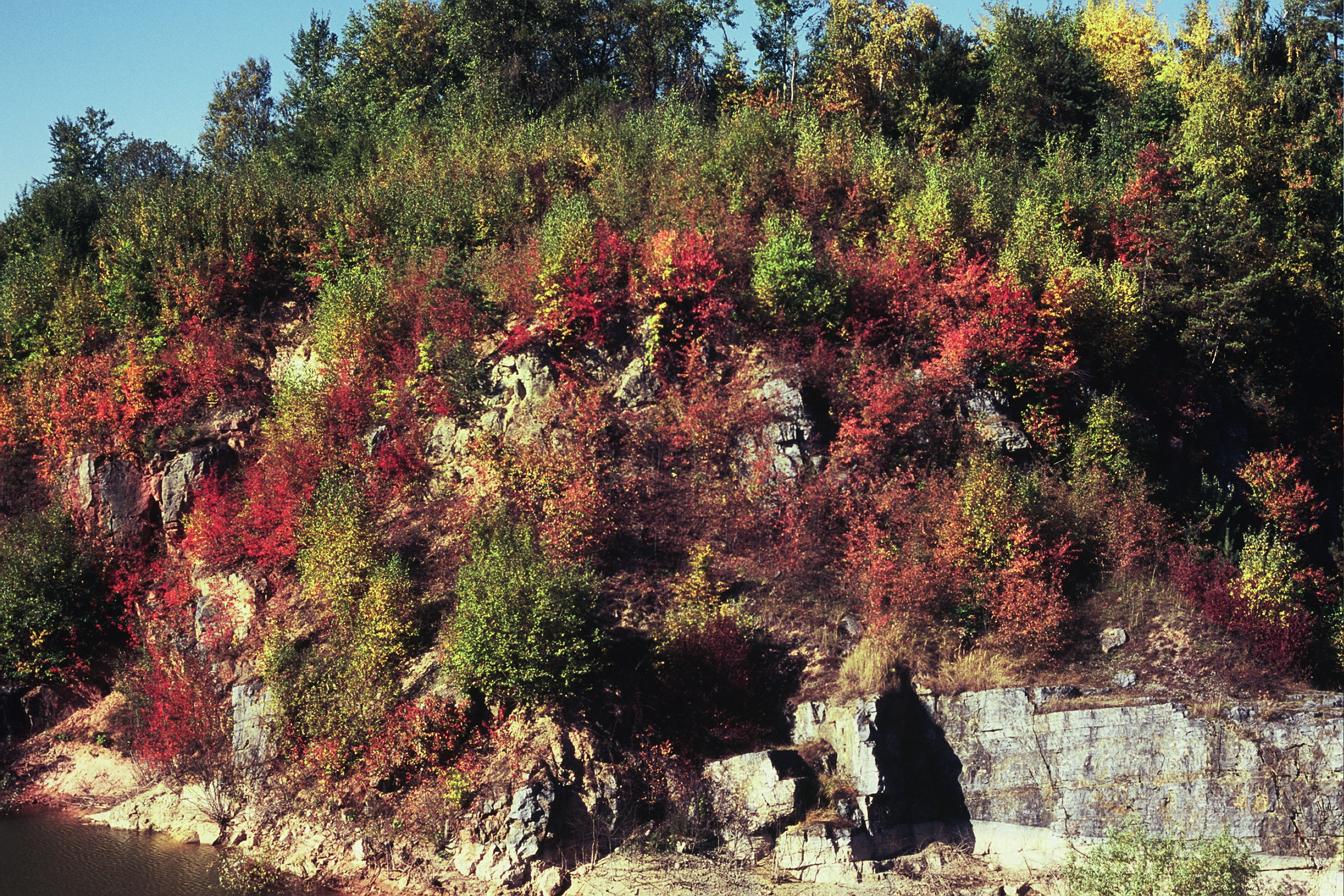 Quarry in autumn